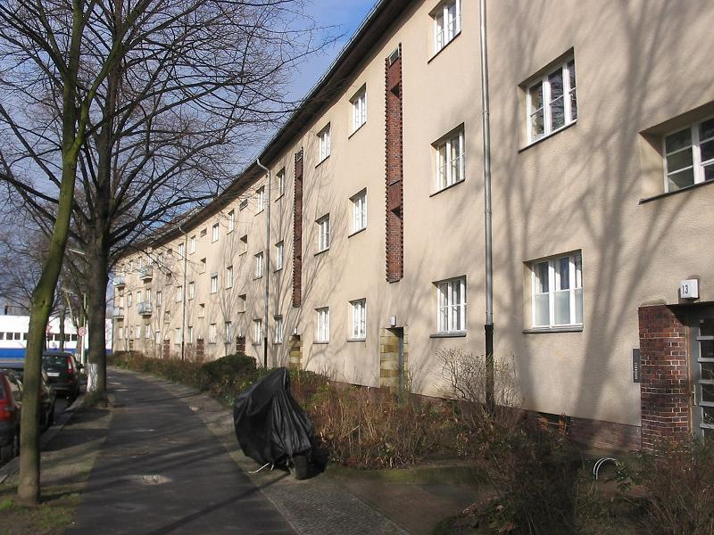 Listed Bärensiedlung (german for „Bear residential development“) at the Schaffhausener Str. (street) in Berlin-Tempelhof, built in 1929/31.